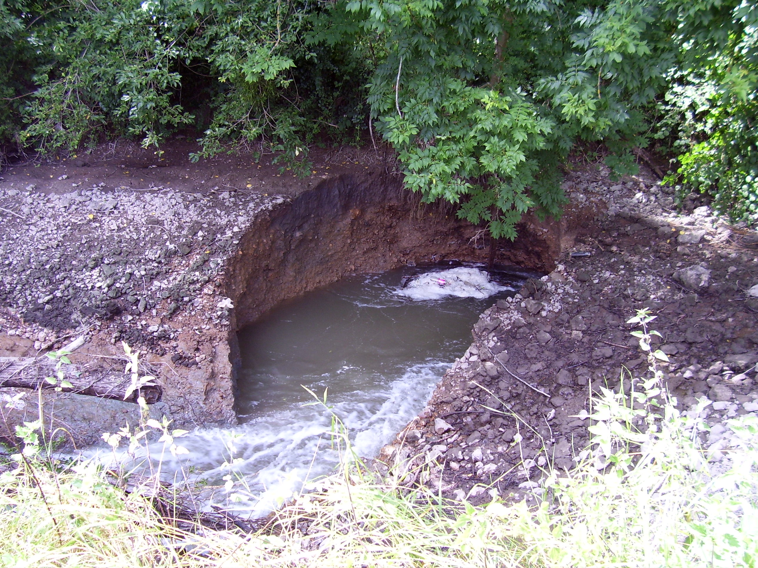 On July 30 2012 the Risle vanished in a ponor between Ajou and La Houssaye (Eure, France). It runs underground for 12 kilometres. The river was here 7m wide before it fell in this hole.